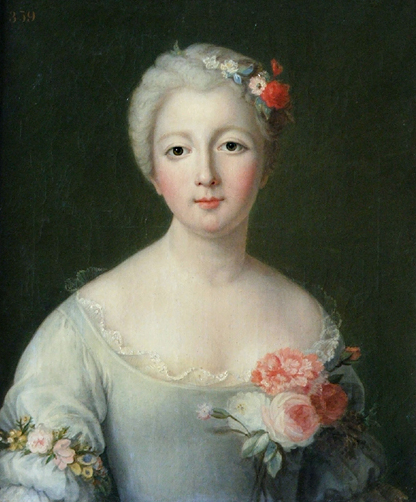 Portrait of Maria Teresa Felicitas d'Este (1726-1754)